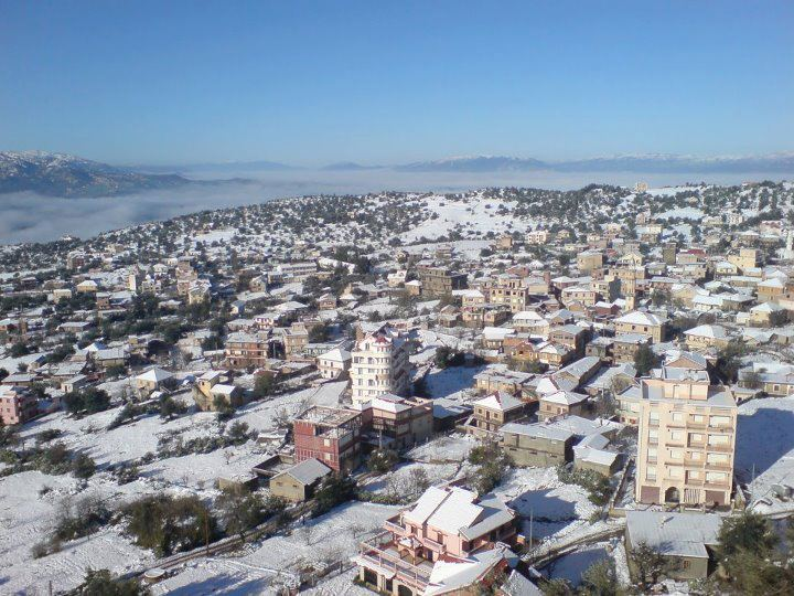 Ait bouada under the snow - Mehdi Ikni